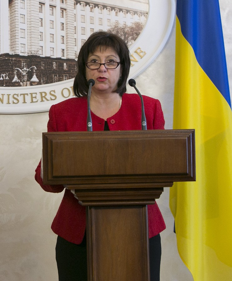 Ukrainian Finance Minister Natalie Jaresko, Kiev, 28 January 2015.